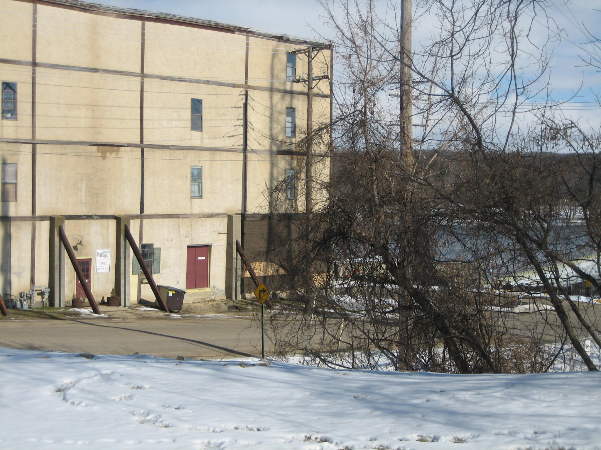 Old Schiller Piano Factory, North Third Street, part of the Oregon Commercial Historic District, Oregon, Illinois. National Register of Historic Places.